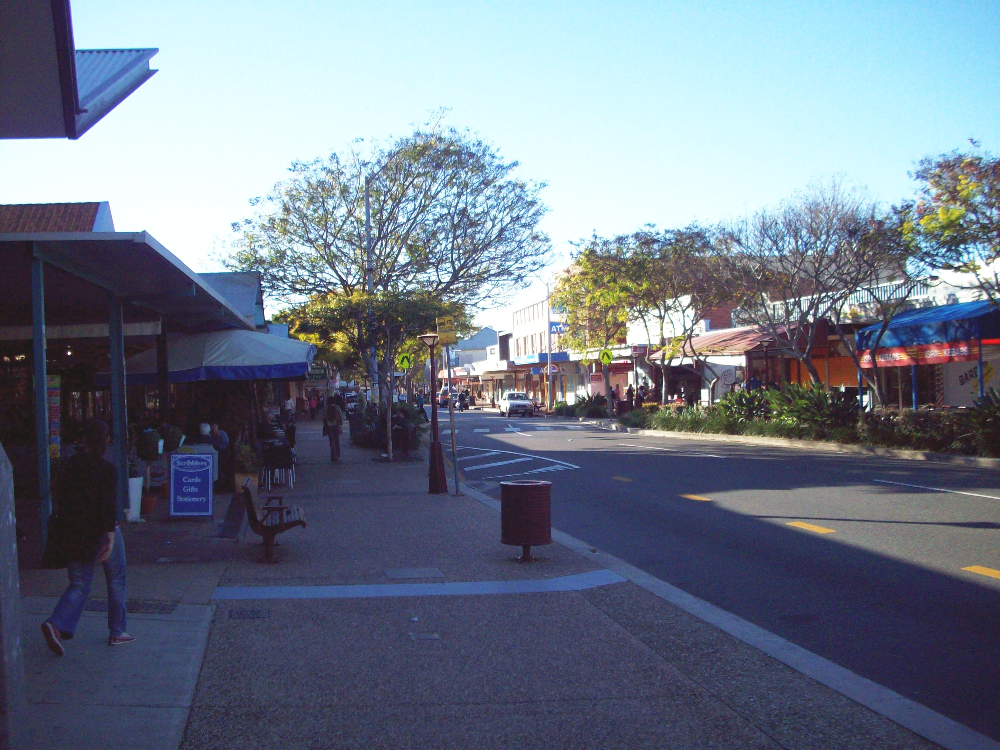 Logan Road, Stones Corner